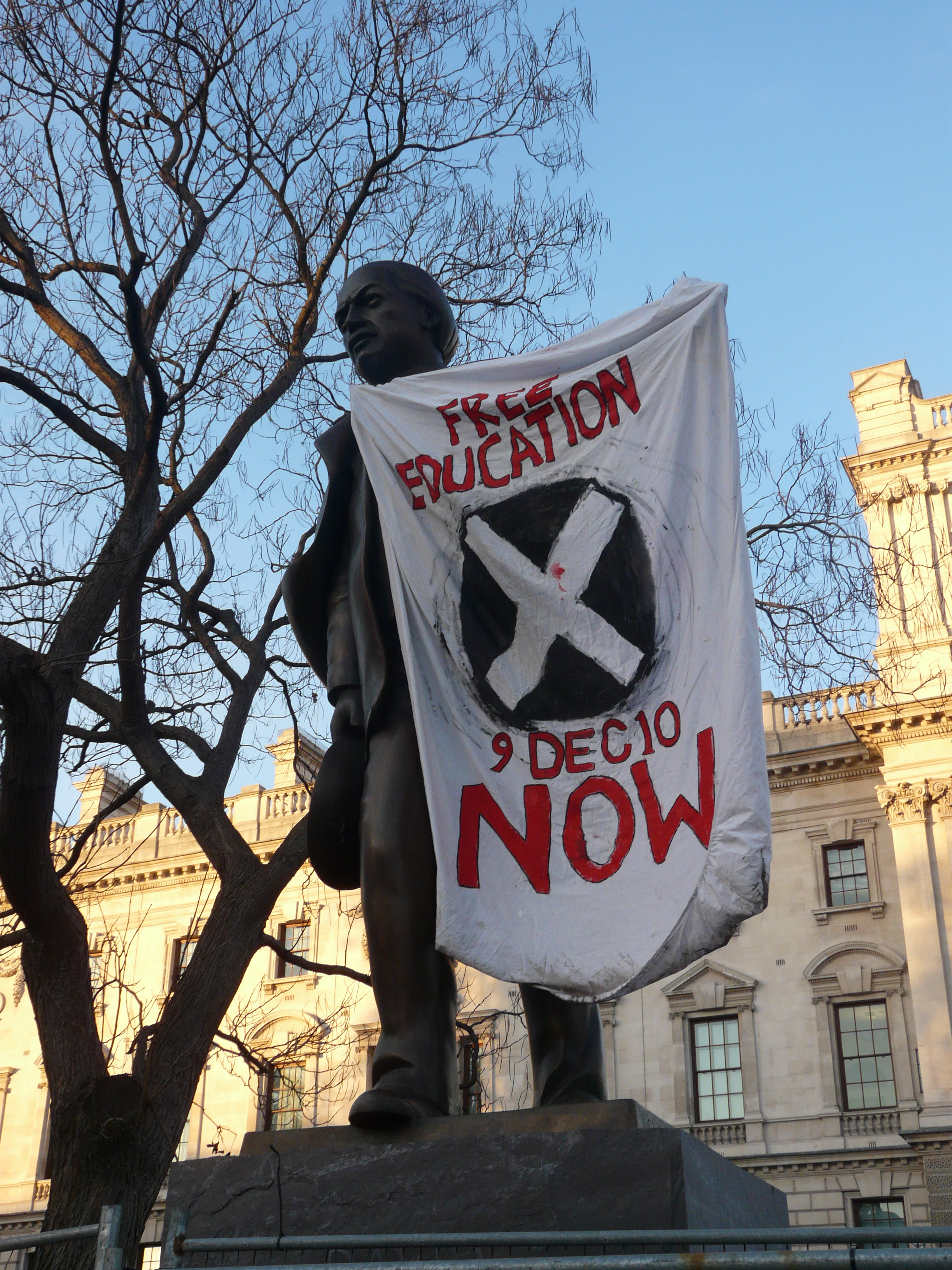 We are students and supporters peacefully occupying the Jeremy Bentham room at UCL (University College London.) You can read our full demands on: You can keep up with everything we're doing at: and follow us on Twitter: You can even come and say hello if you see something you like on here - either in person ( or leave us something in solidarity